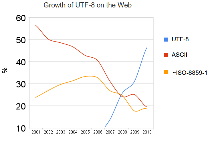 Unicode usage on webpages since 2006 to 2010. Based on Davis 2010, w3techs and Encodings were detected by examining the text, not from the encoding tag in the header,[1] and were sorted to the least inclusive set;[2] thus, ASCII text tagged as UTF-8 or ISO-8859-1 is identified as ASCII. ↑ Davis, Mark (28 January 2010). Unicode nearing 50% of the web. Official Google Blog. Google. Retrieved on 5 December 2010. ↑ utf-8 Growth On The Web (response). W3C (8 May 2008). Retrieved on 6 August 2015.